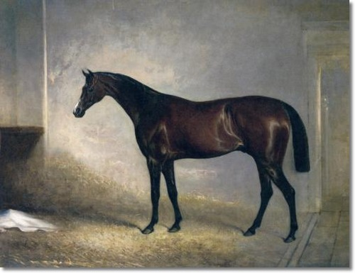 Attila, 1842 Epsom Derby winner. Painting by John E. Ferneley. (1782-1860). Painter died 152 years ago.